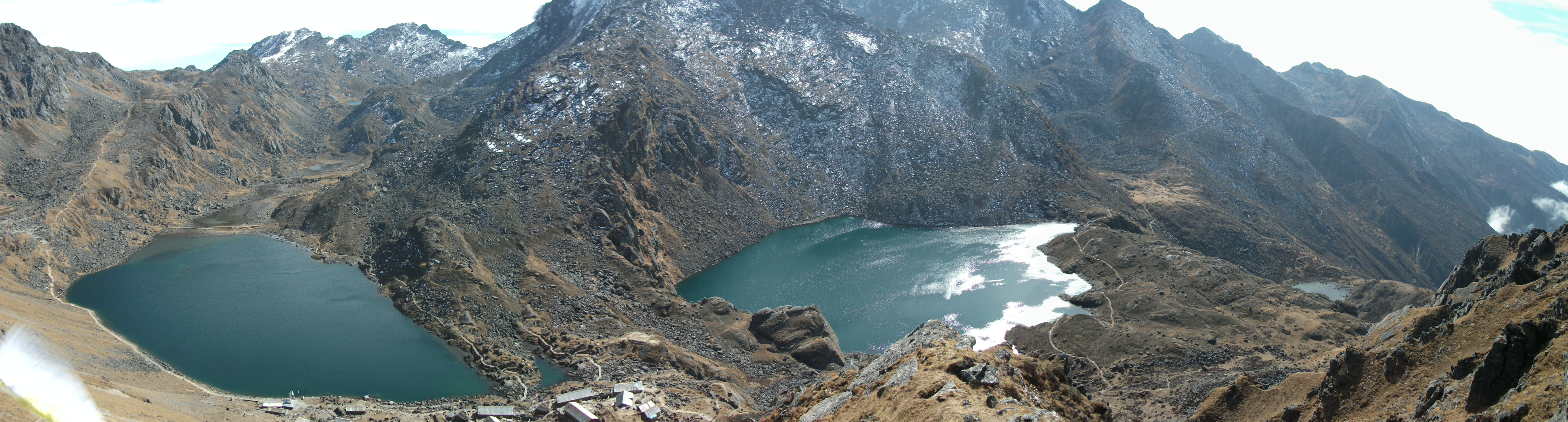 Langtang